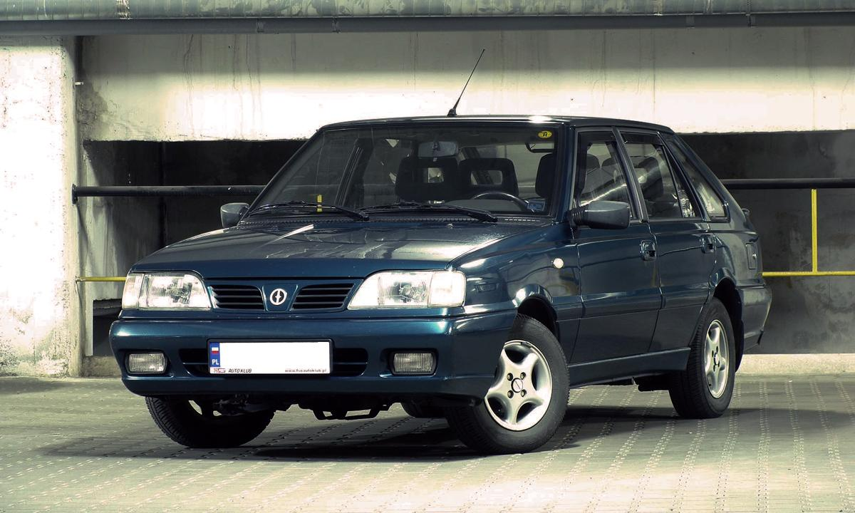 Daewoo-FSO Polonez Caro Plus.